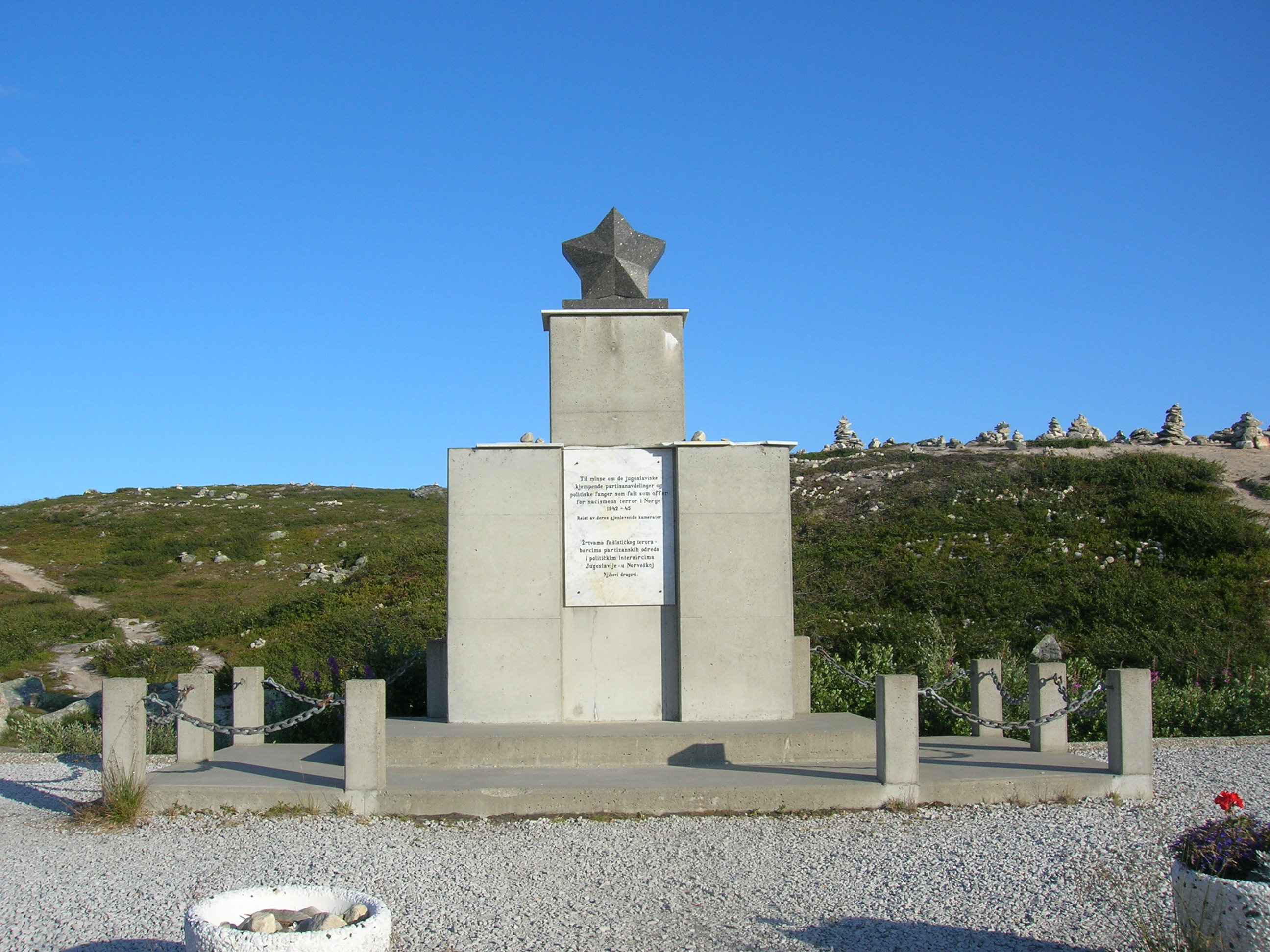 A war memorial over war prisoners who lost their lives during slave labour for the Nazi occupation force during World War II, when building the road over Saltfjellet (Blodveien). The Arctic Circle on Saltfjellet, Rana municipality, Norway. Photo on 16 August, 2008 with a Nikon Coolpix 5600 5,1 Megapixel camera.